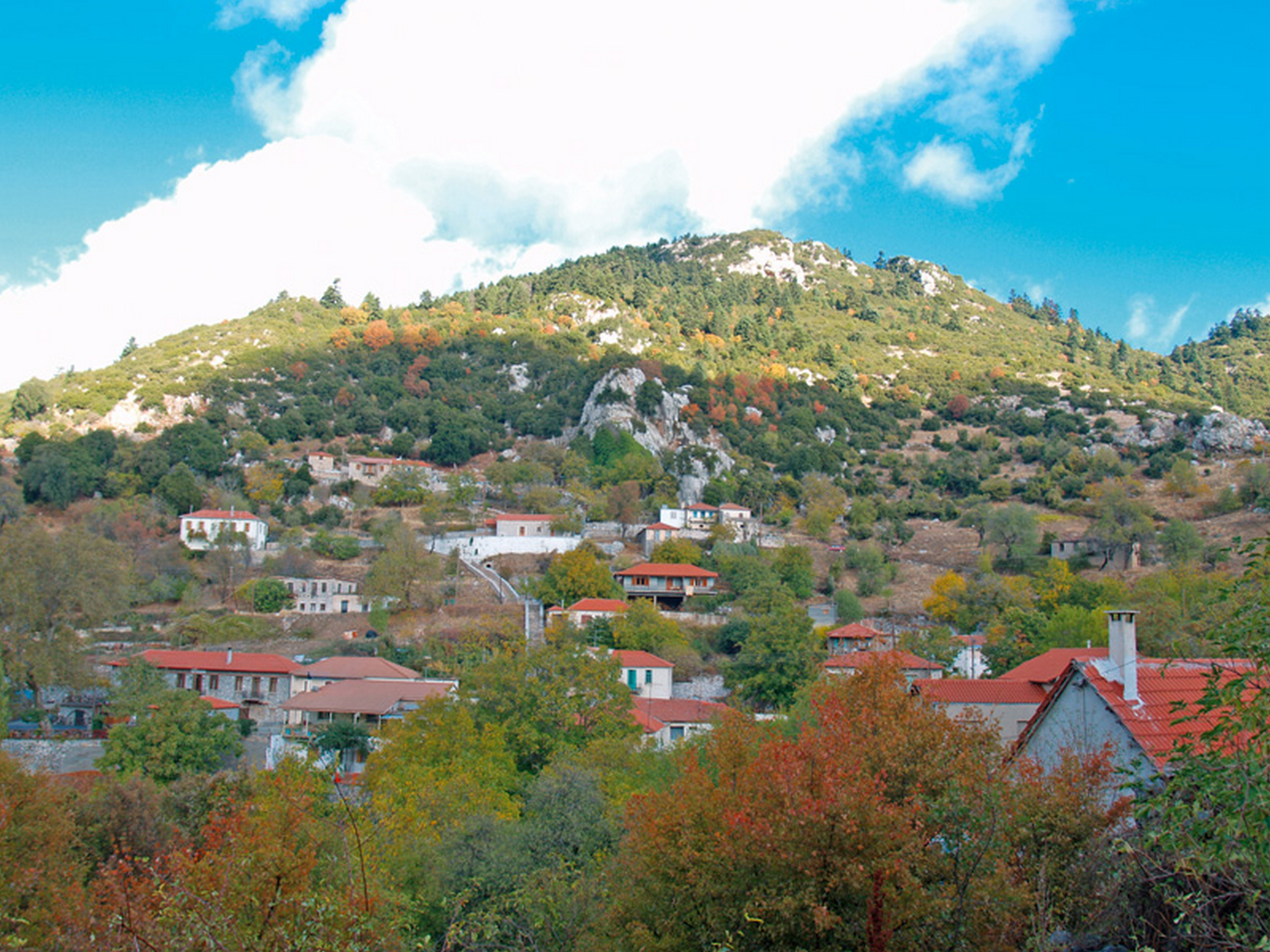 Village of Chrisovitsi in Arcadia